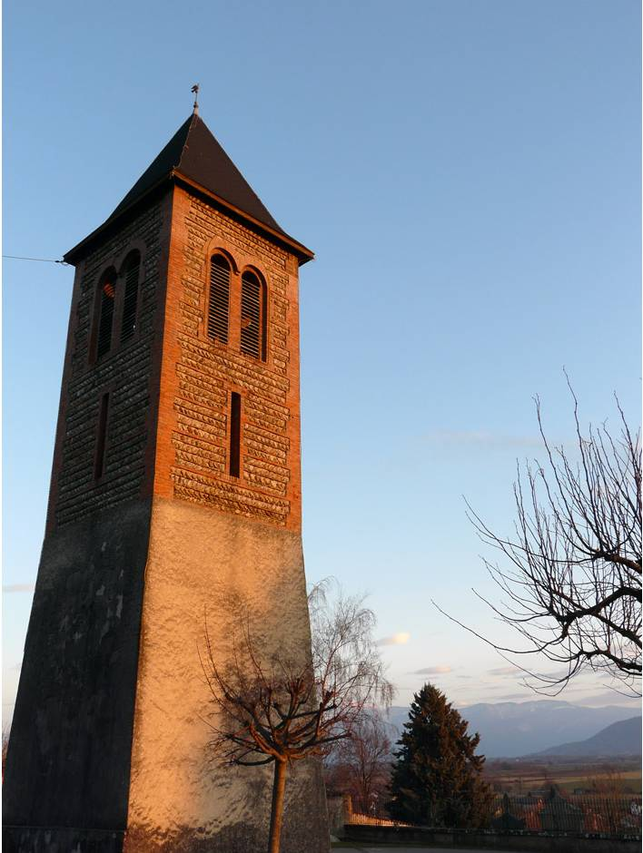 Belfry in Colombe, french village.